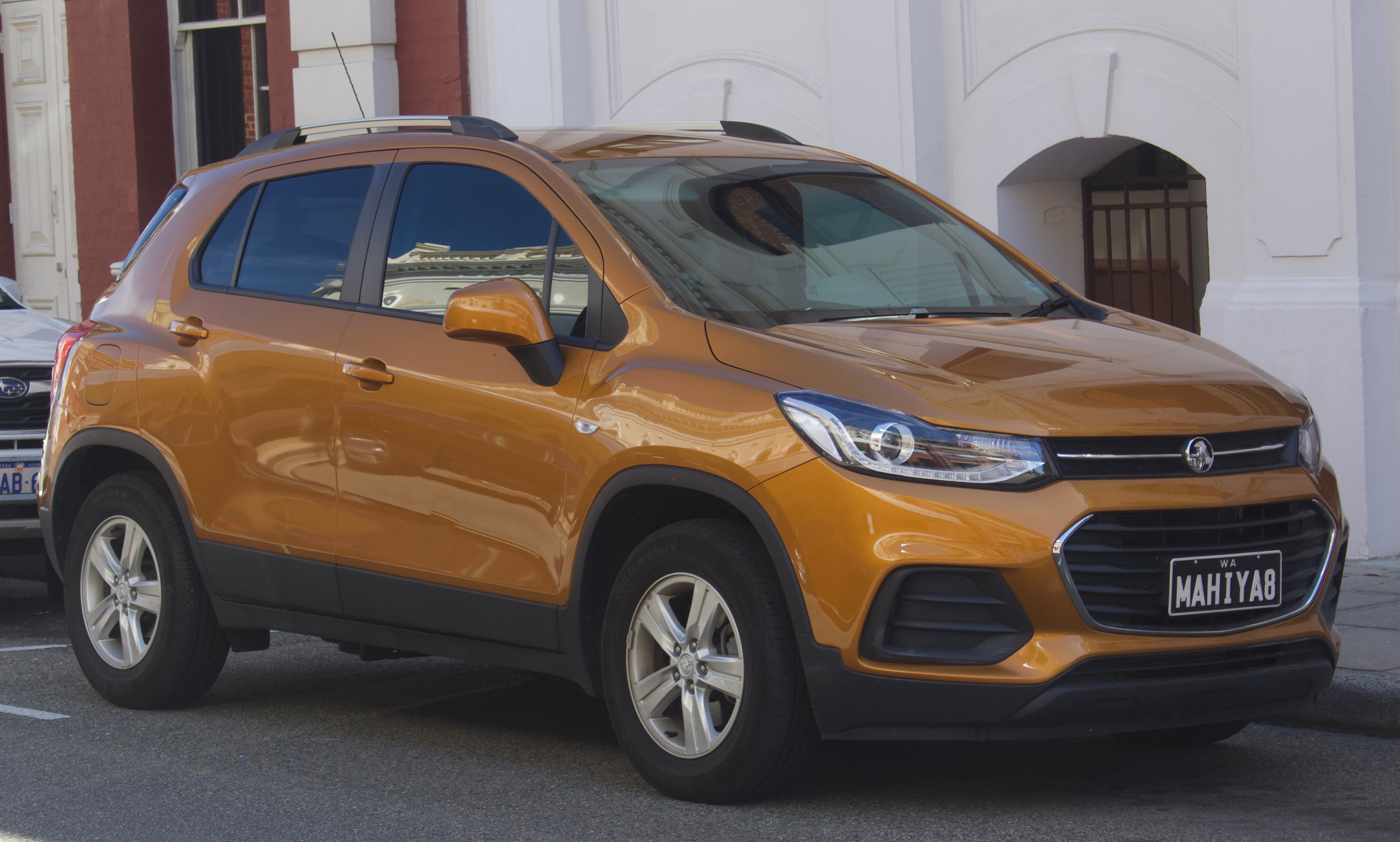 2017 Holden Trax (TJ MY18) LS wagon. Photographed in Fremantle, Western Australia, Australia.